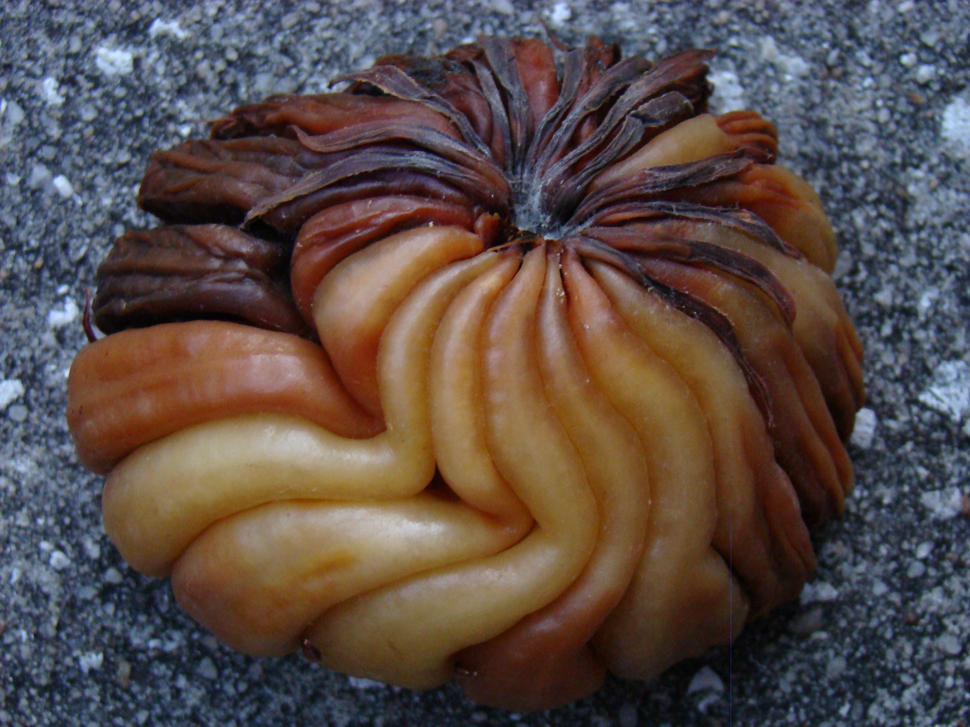 The half of a ripe core of an Elephant Apple (Dillenia indica / Dilleniaceae) from a tree in Mounts Botanical Garden, West Palm Beach, Florida.